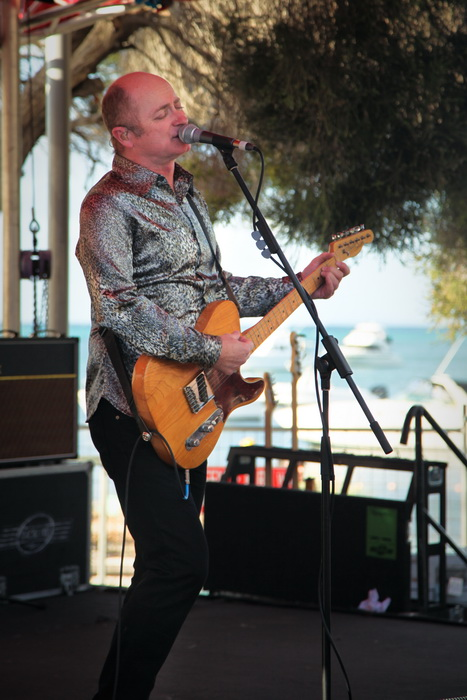 Dave Faulkner with Hoodoo Gurus at Rottnest Island , April 2012